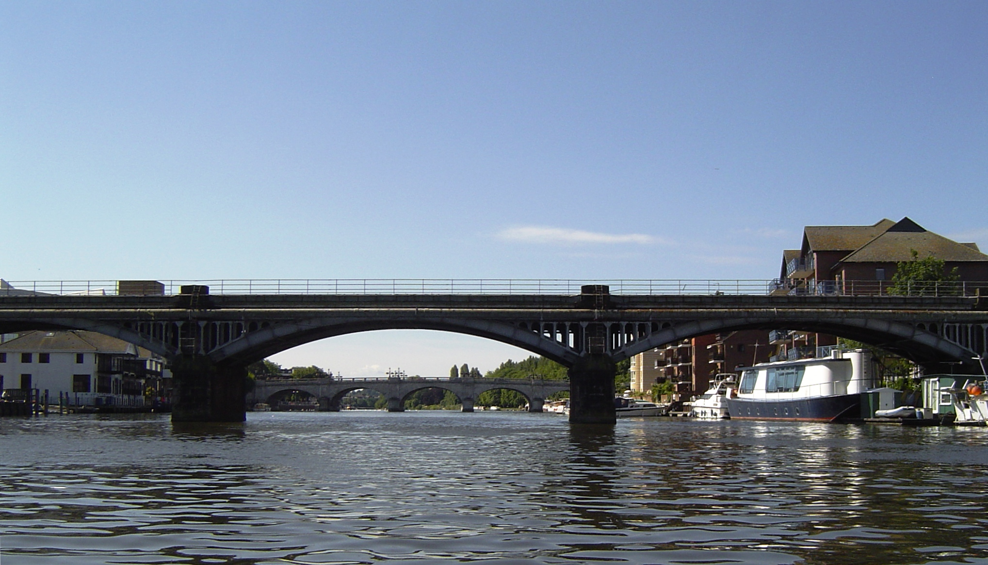 Kingston Railway Bridge from upstream